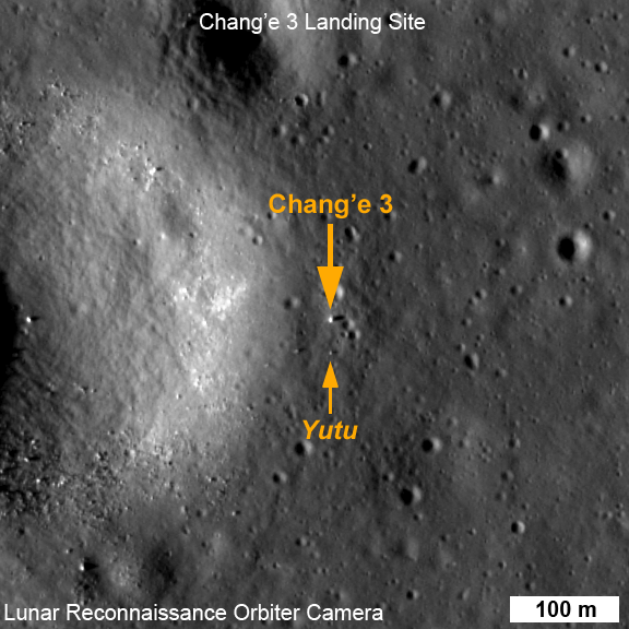 View of the Chang'e 3 lander (large arrow) and Yutu rover (small arrow). The image was taken by the Lunar Reconnaissance Orbiter Camera Narrow Angle Camera. The image width is approximately 1,900 feet (576 m). North is up.